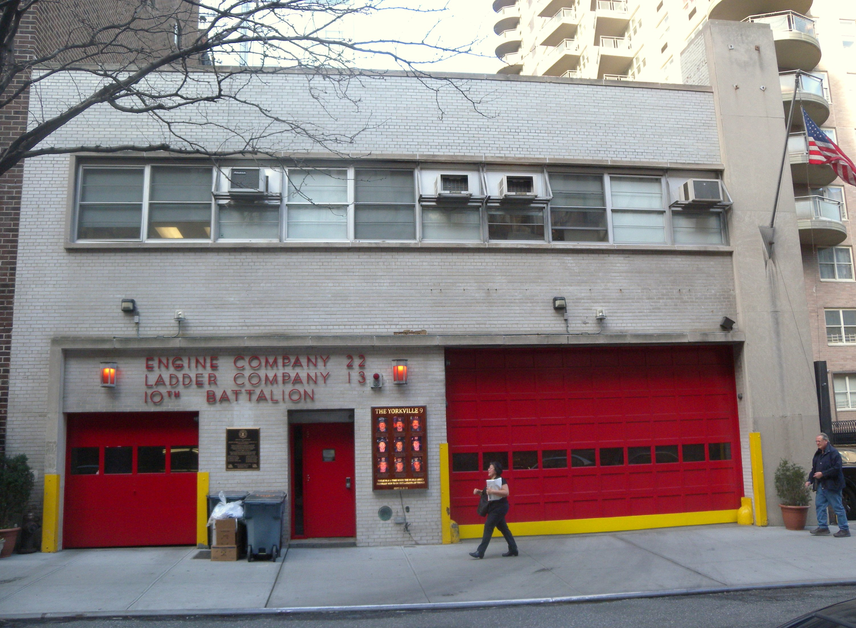 Looking north across 85th Street at fire station on a mostly sunny day.